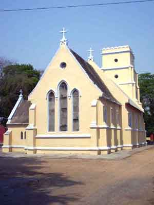 Yellow Church, established in1835 A.D. is the most famous and oldest church of Banda .Rather some records have been found that proved that Christianity was in Banda before 1809 A.D. but Yellow Church is best the symbol of British architecture and religion.